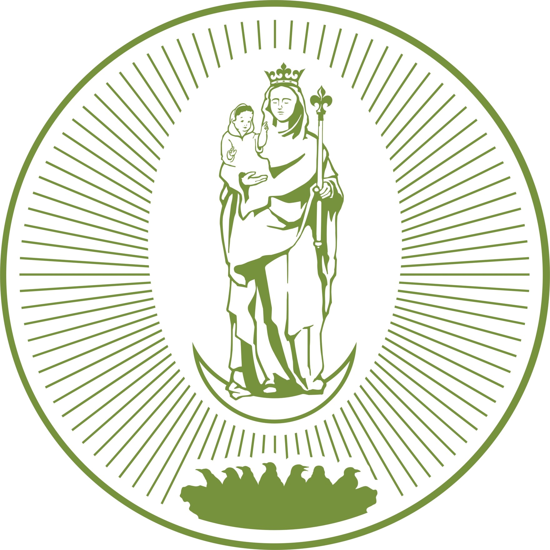 Coat of arms of Fraureuth; Landkreis Zwickau